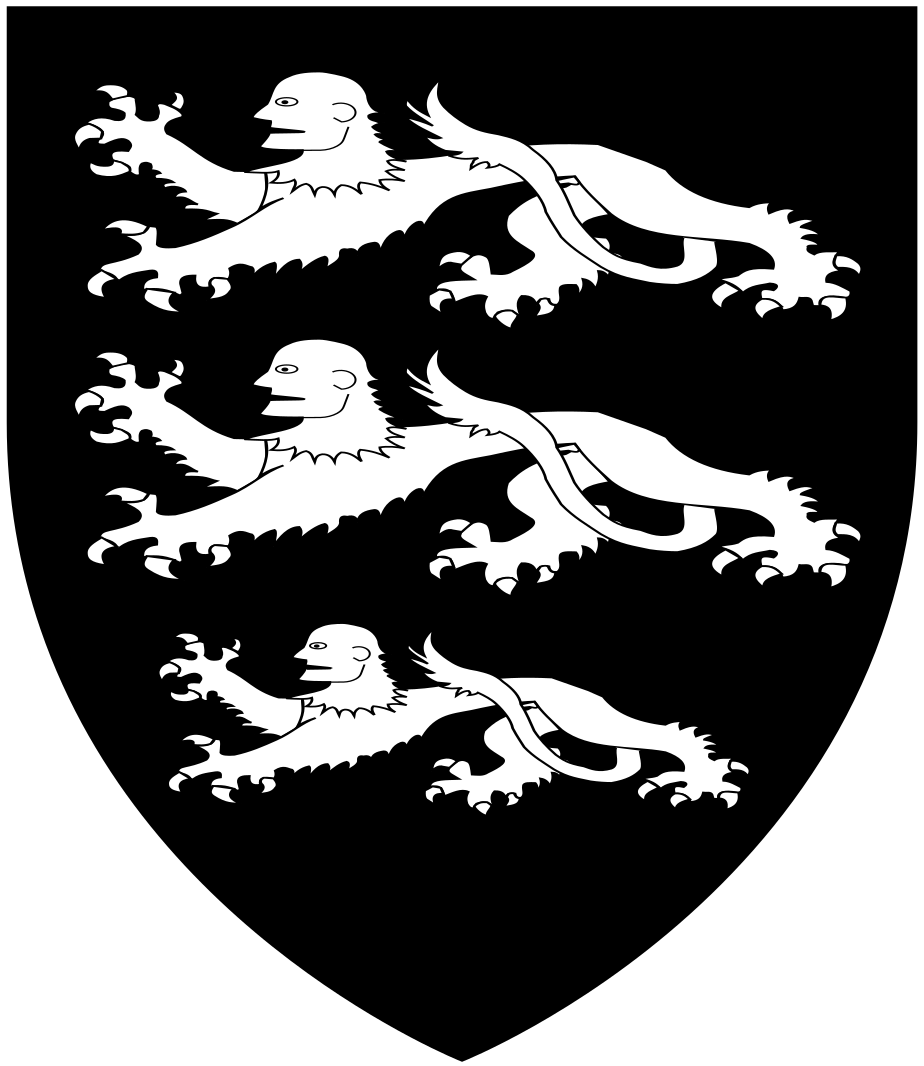 Arms of Radford of Radford, Devon: Sable, three lampagoes passant coward in pale argent. (Source: Pole, Sir William (d.1635), Collections Towards a Description of the County of Devon, Sir John-William de la Pole (ed.), London, 1791, p.499: "Radford of Radford: Sable, 3 lampagoes, [man tygers, with lion's bodyes and men's faces] passant [in pale] cowarde argent")